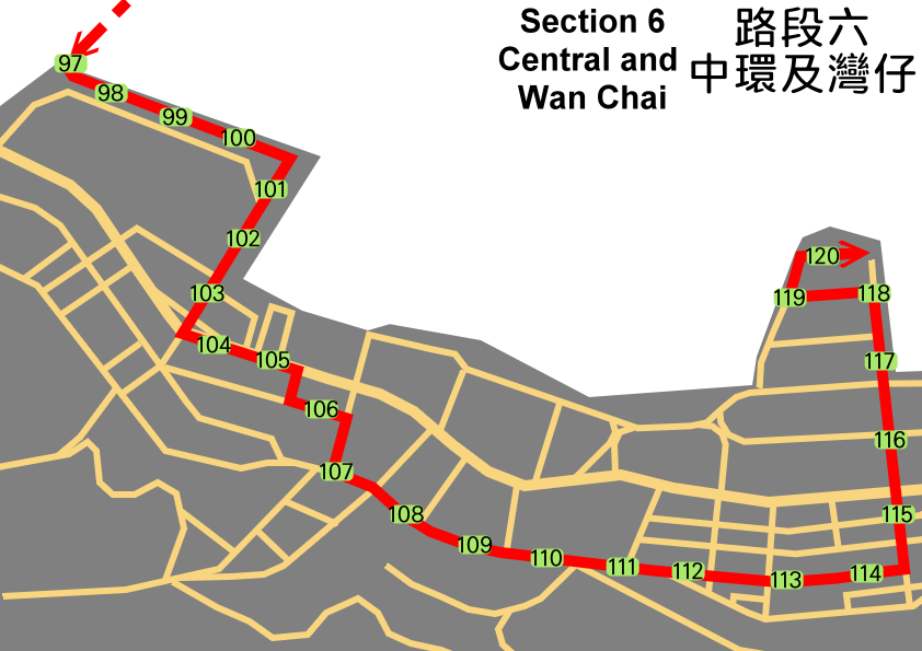 2008 Summer Olympic Torch Relay in Hong Kong, Section 6, Central and Wan Chai